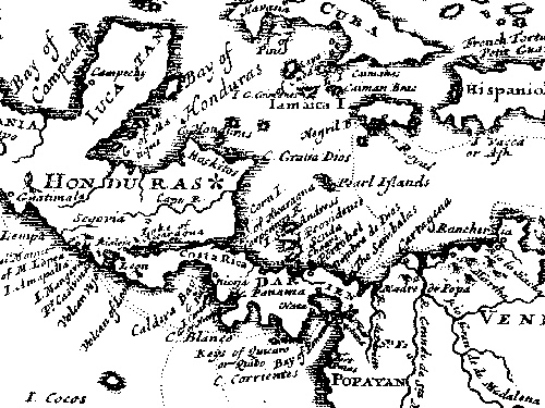 This map is from "A New Voyage Round the World", published in 1697 by William Dampier, the English sea captain, naturalist, and occasional pirate. The Miskito coast is marked with a star. Dampier and his associate, the surgeon Lionel Wafer describe the Miskito peoples in the period 1690-1700. These tribal groups, often mixed with runaway slaves, formed a distinct culture in the coastal region, sometimes forming alliances with pirates against Spanish authorities in the 16th-18th centuries.